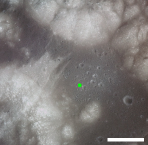 Green dot shows location of Mackin, Taurus-Littrow Valley, on the moon. Scale bar at lower right is 5 km.